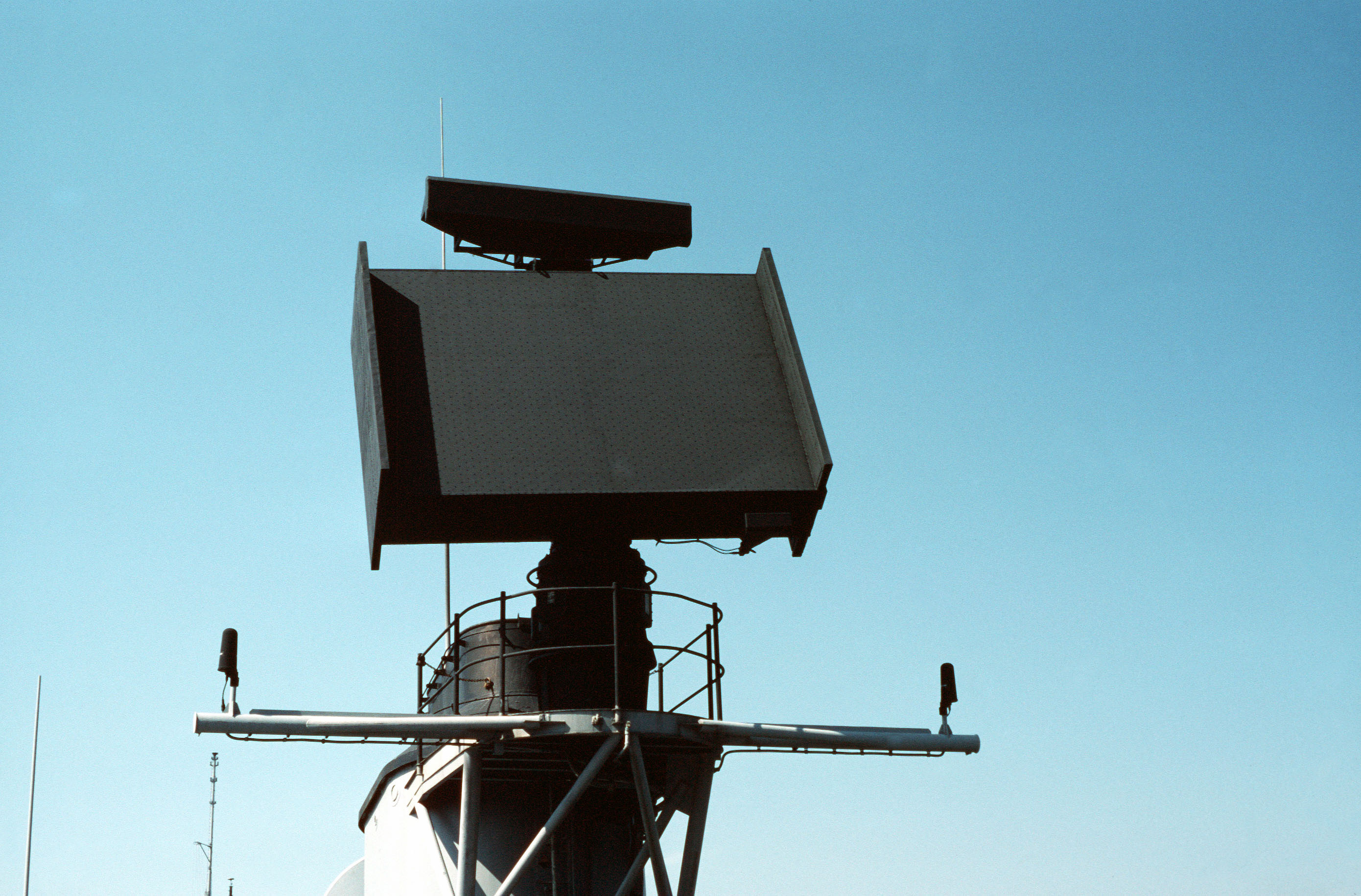 A view of the SPS-52 three-dimensional air search antenna on top of the number two smokestack aboard the guided missile destroyer USS RICHARD E. BYRD (DDG 23). NORFOLK, VIRGINIA (VA) UNITED STATES OF AMERICA